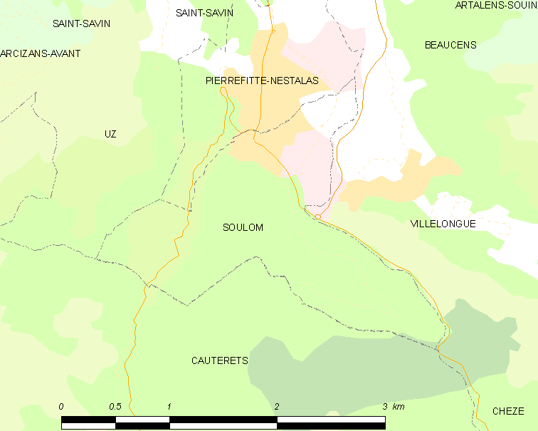 Map of French municipality